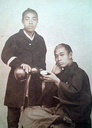 Fukuda Kyohei having a boy soldier pour Sake.